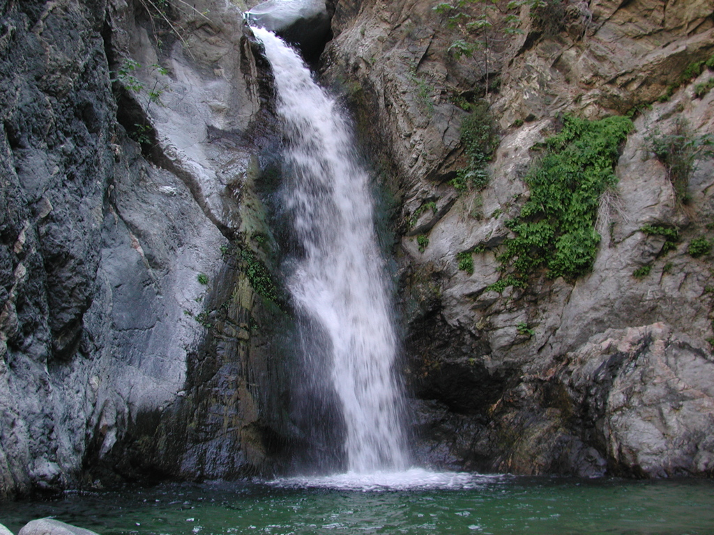 Eaton Falls - in Eaton Canyon of the San Gabriel Mountains above Altadena, California